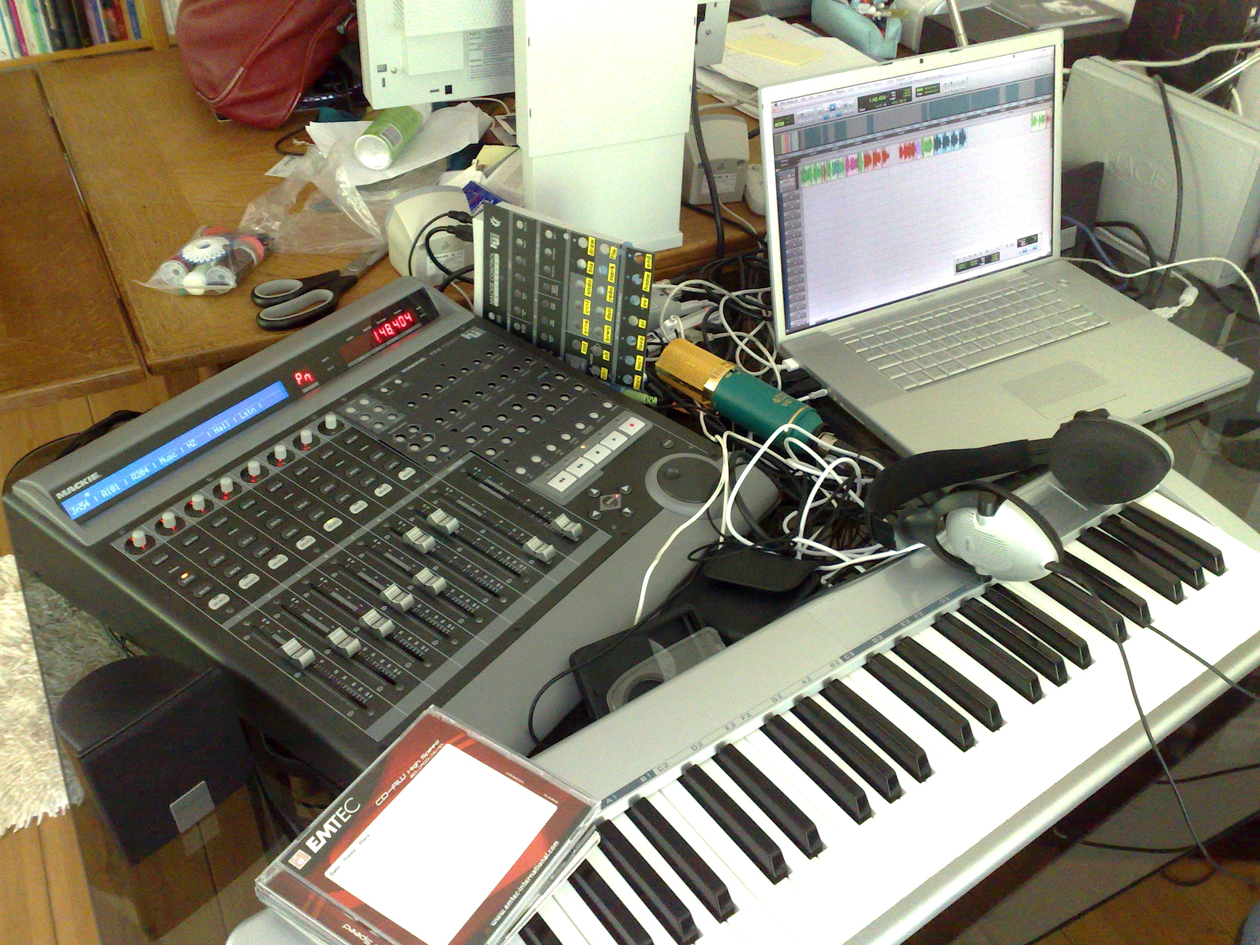 What a mess! Basically, all the work has been done on my Macbook Pro, with just a few things being mixed on a Protools HD system. All the vocal recordings were also done in a real studio with Protools HD.